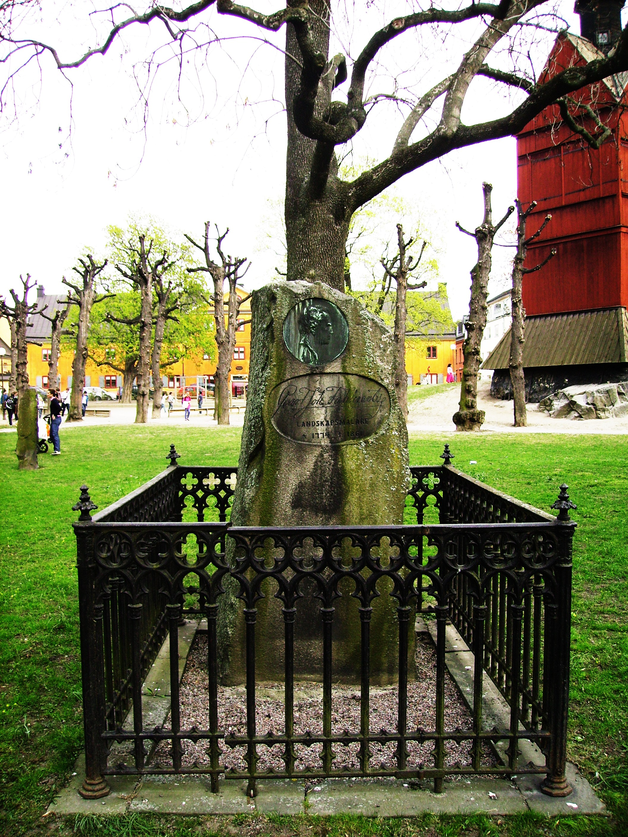 Picture of Carl Johan Fahlcrantz (1774-1861) grave at Johannes churchyard.